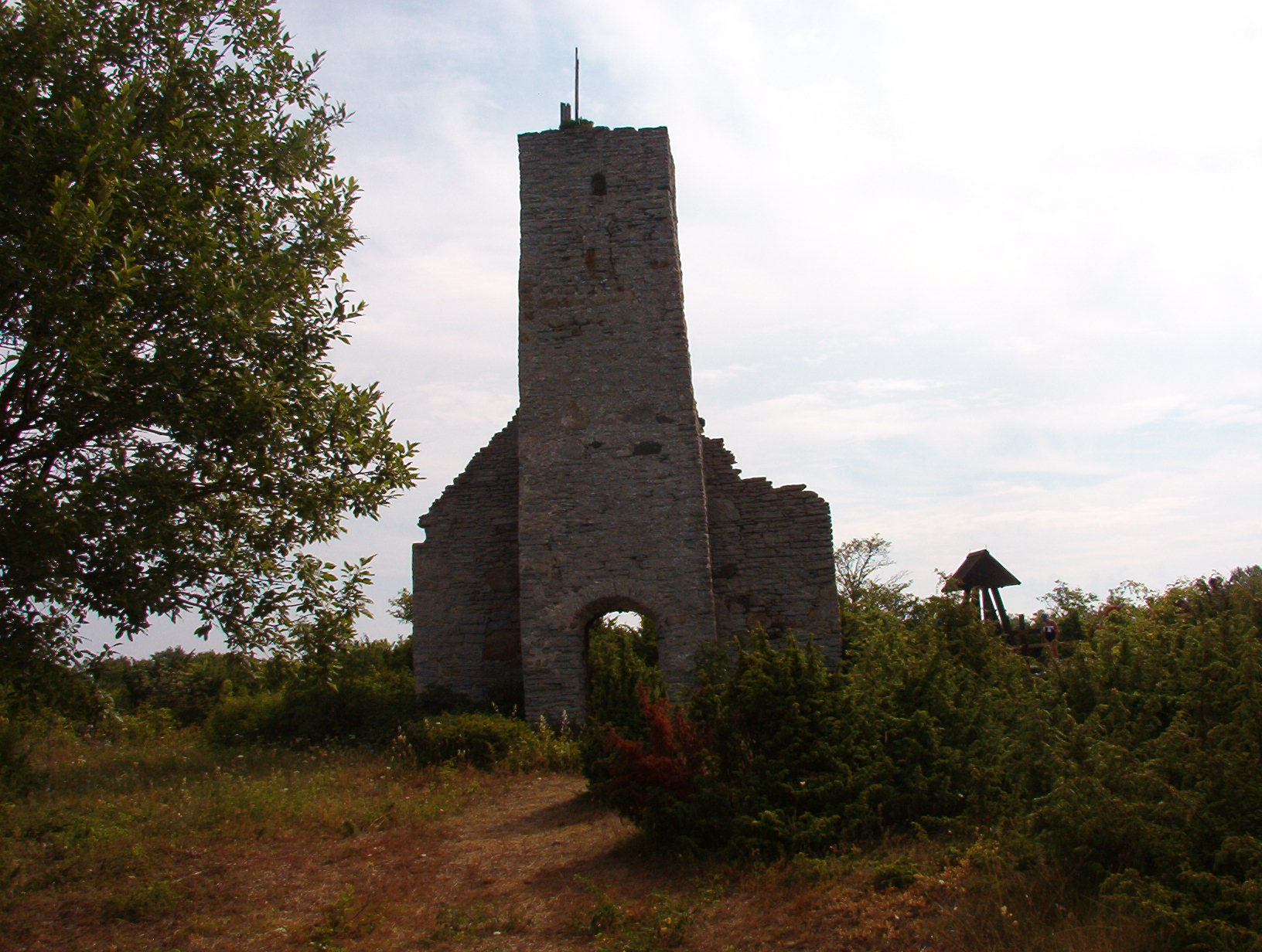 Osmussaar chapel